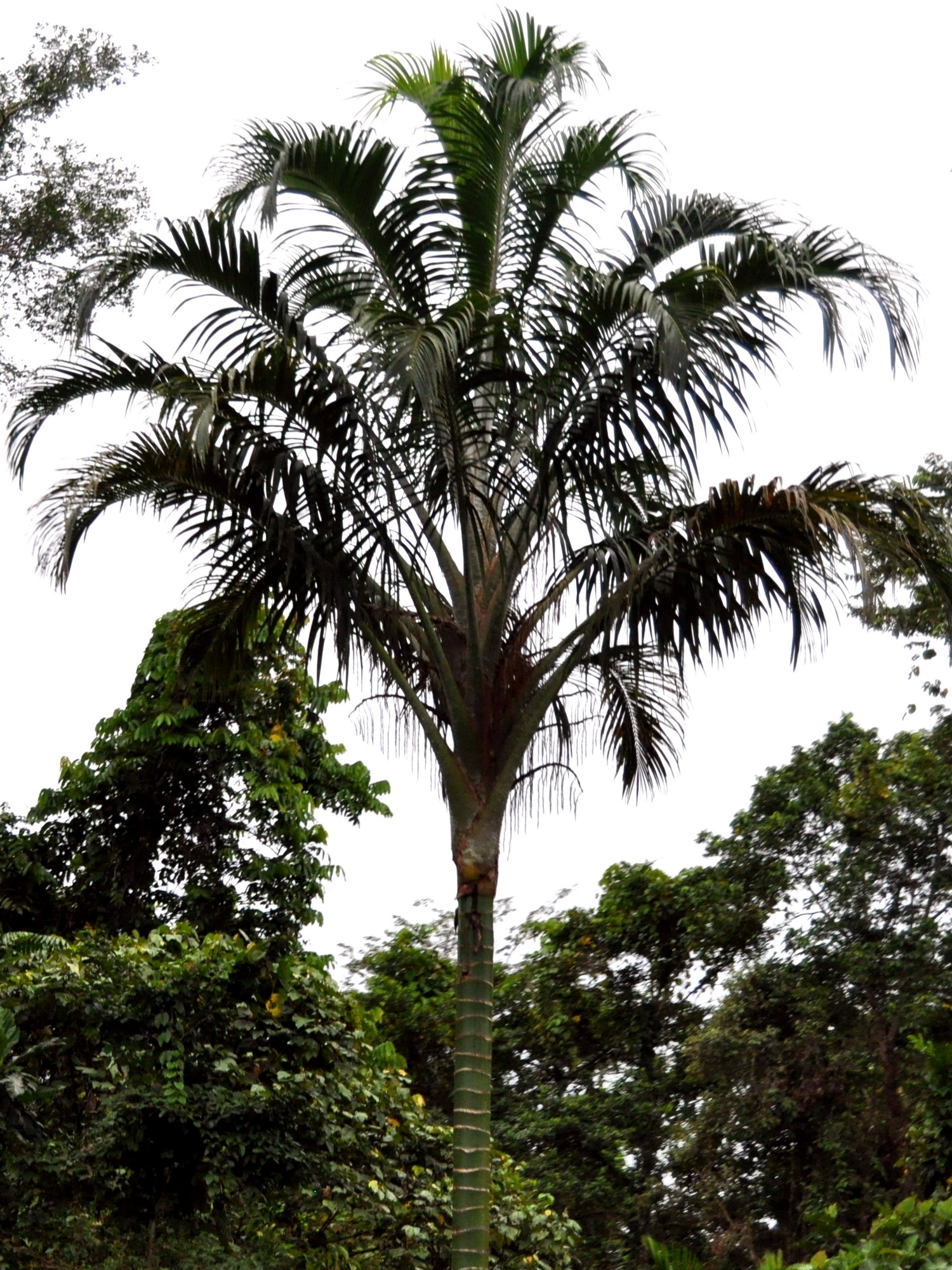 White wanga (Pigafetta filaris); fronds. Sorong, West Papua, Indonesia.